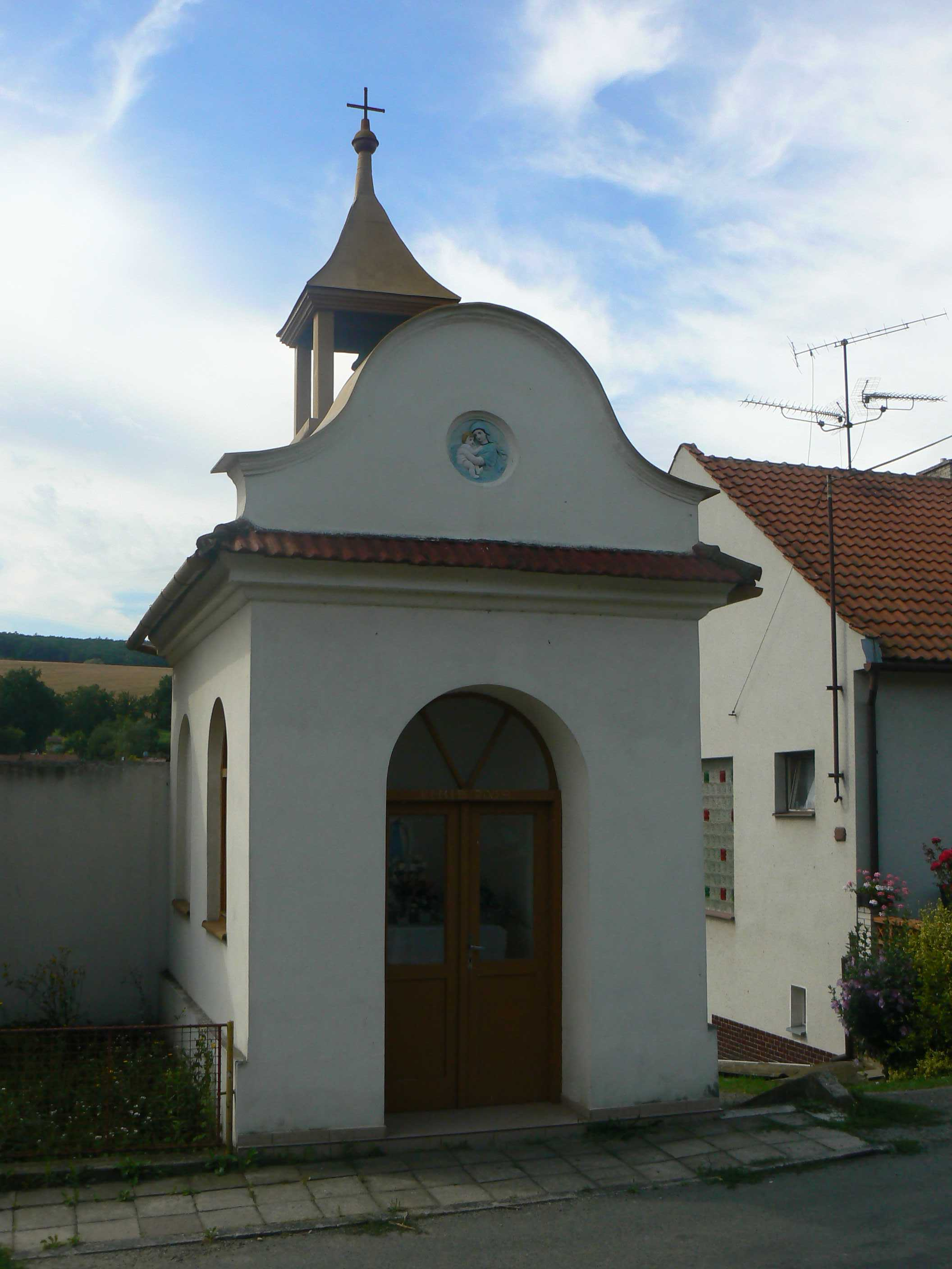 Bell tower in Nesovice.